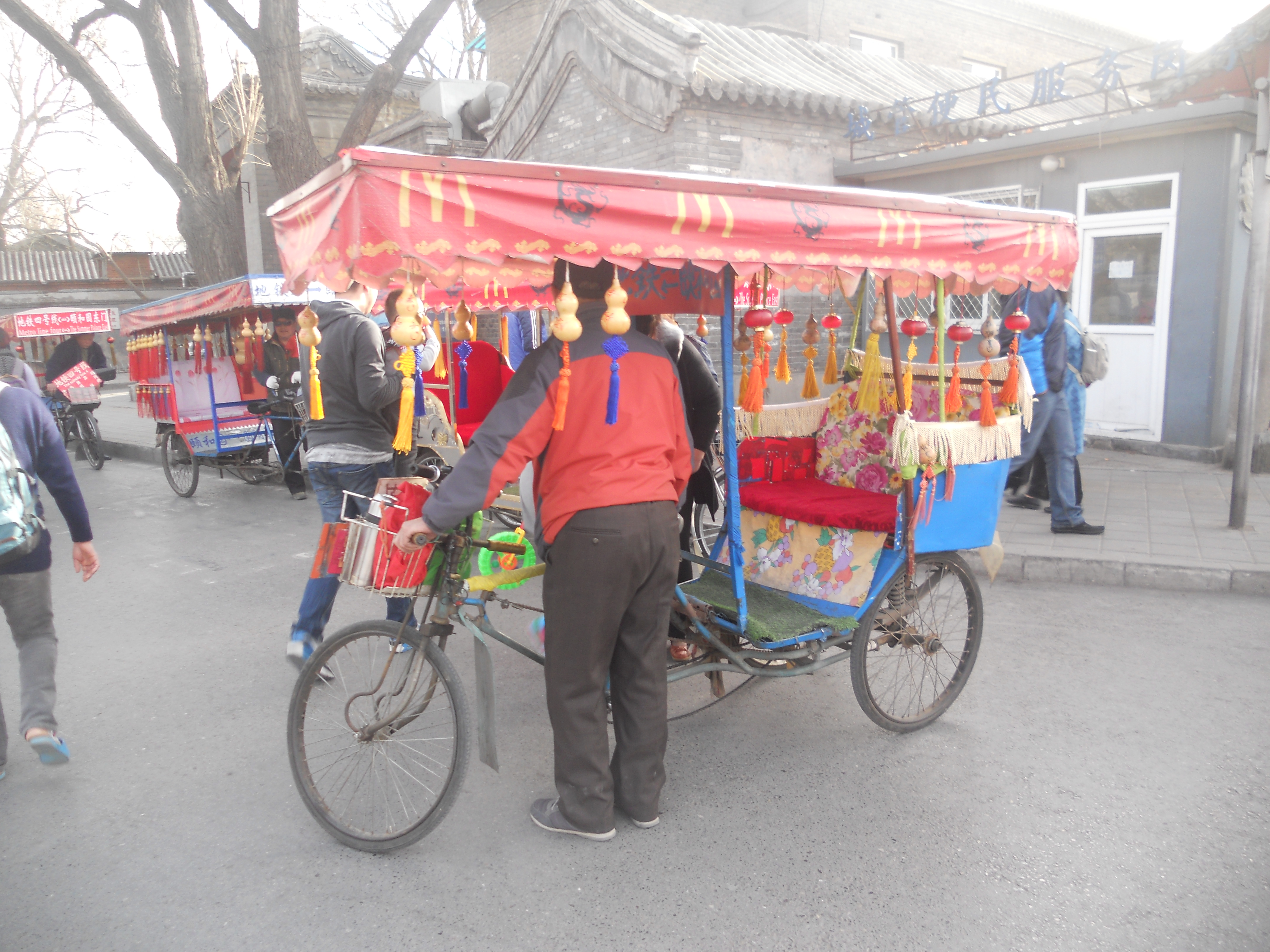 Modern Rikshaw in Beijing, China